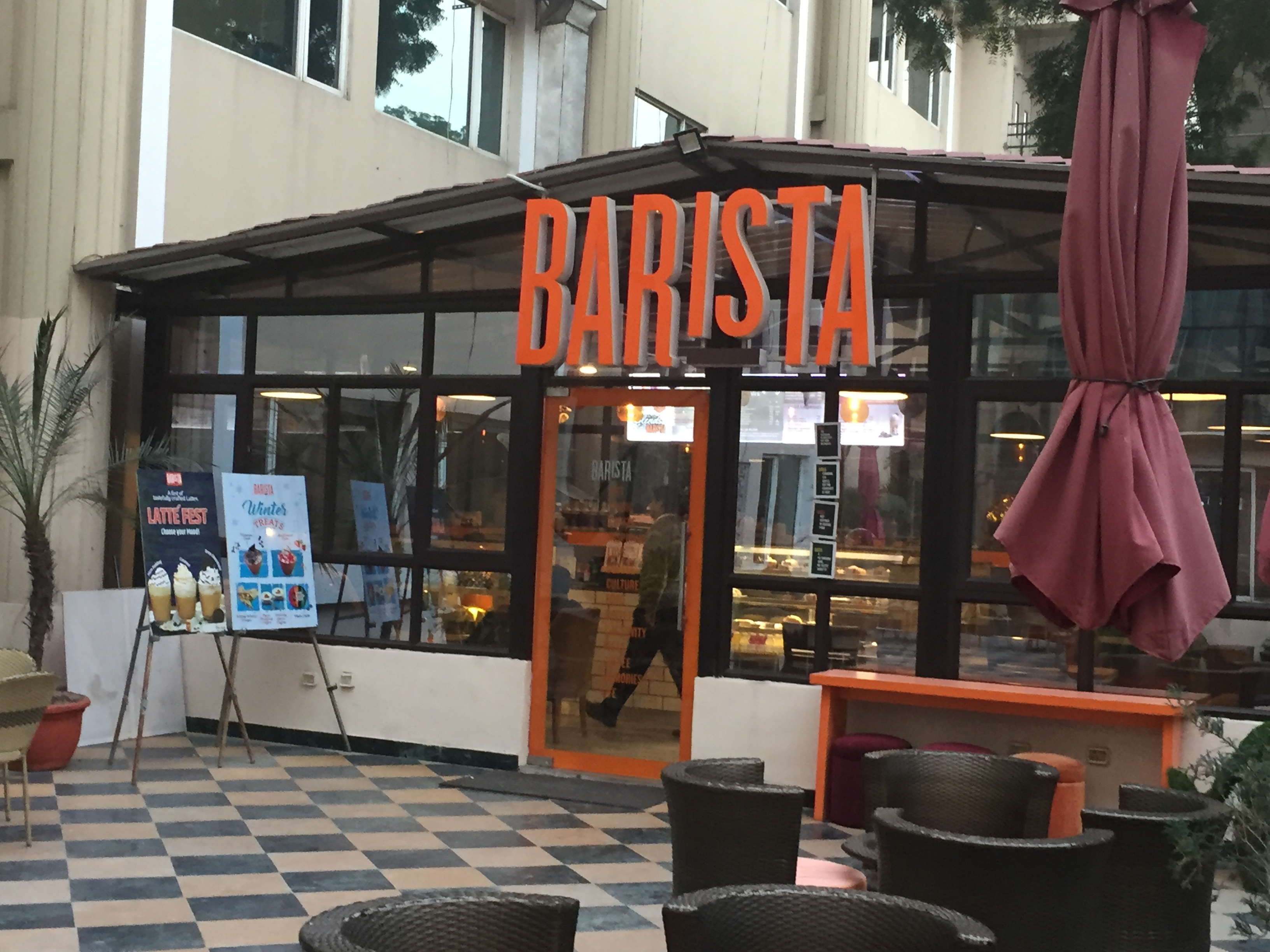 Barista's storefront